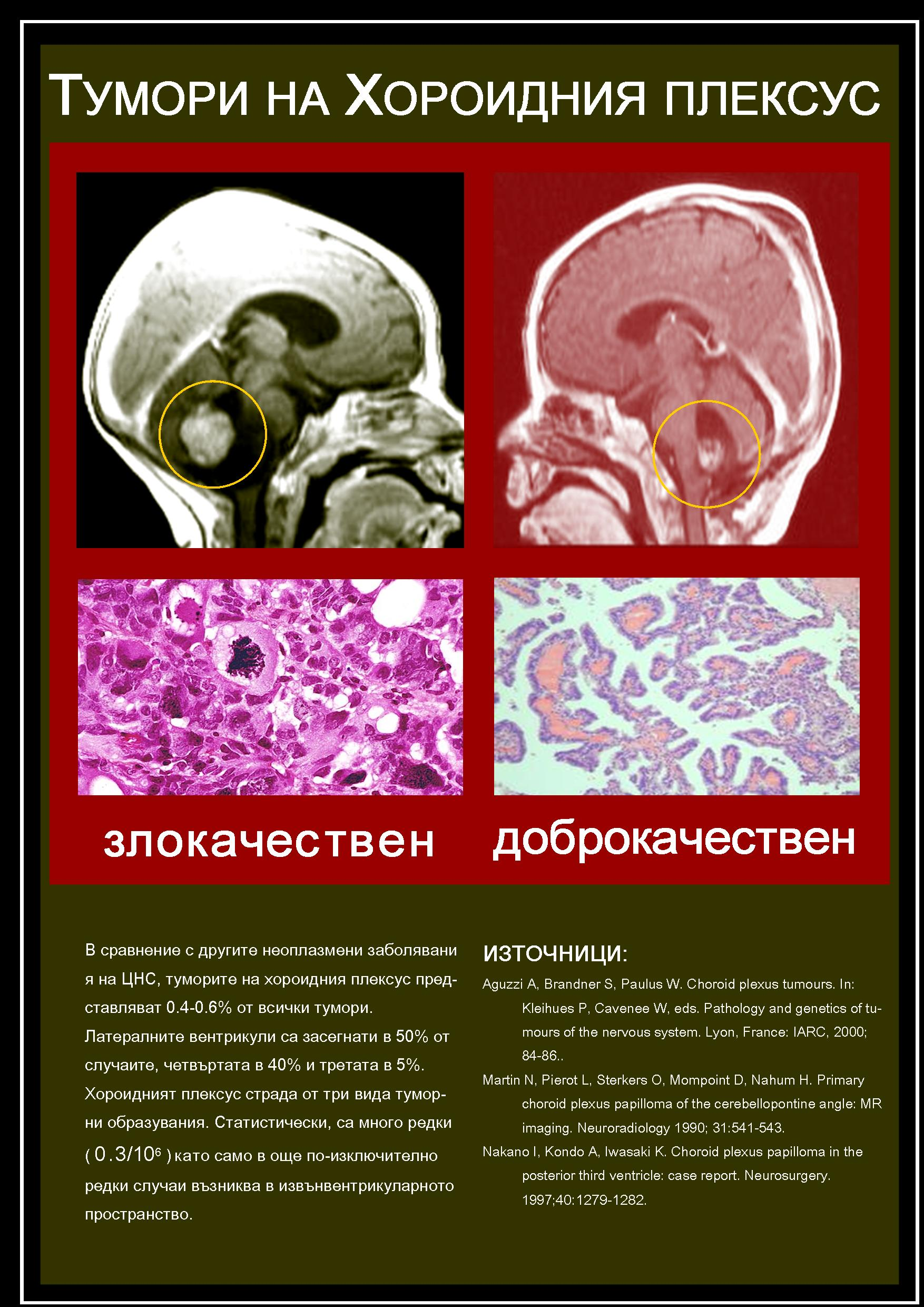 This is a collage of pictures showing radiographic and histological info on choroid plexus tumors.